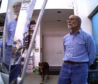 Robert Perless Kinetic Artist reviewing one of his sculptures in his studio